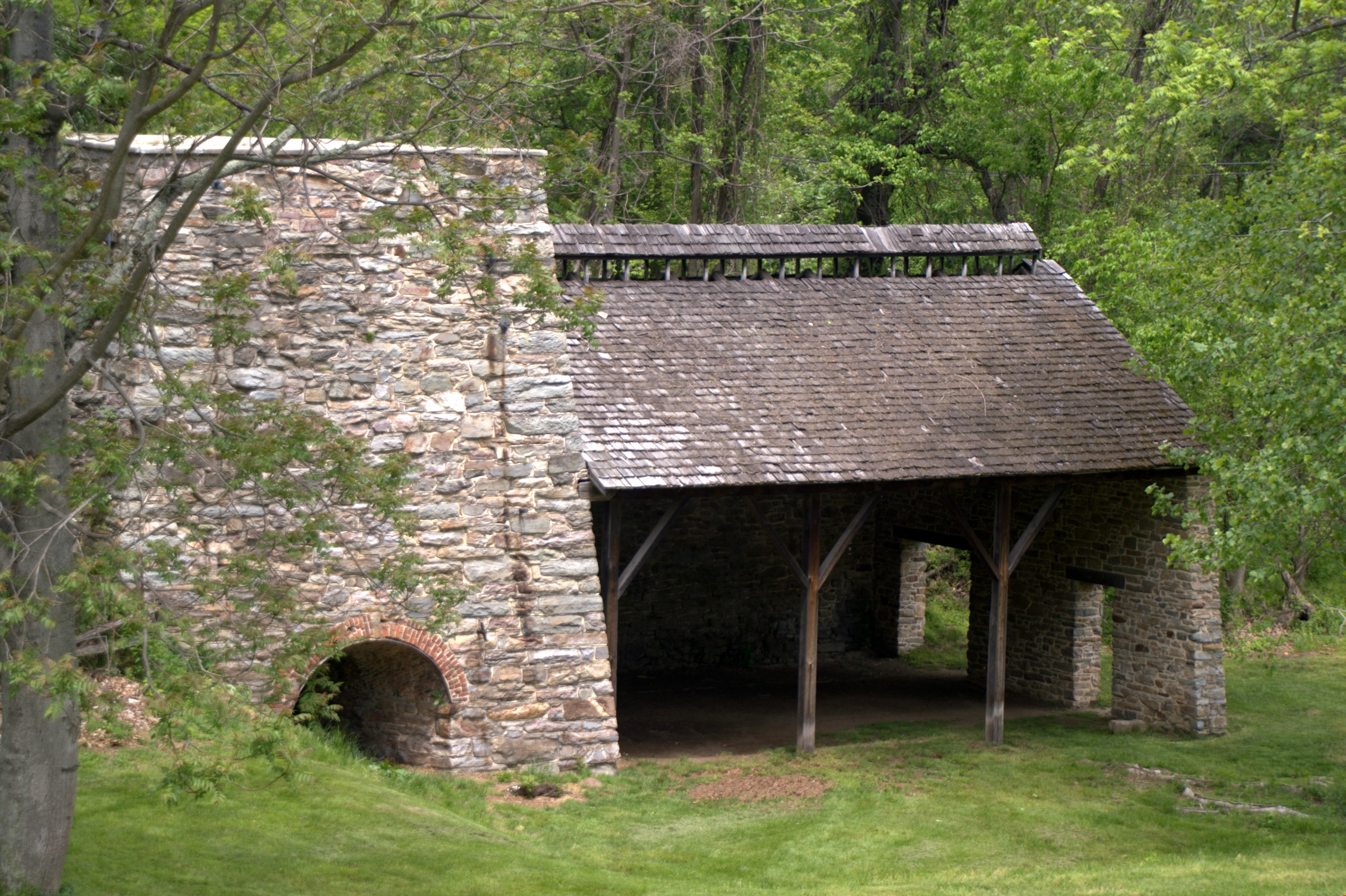 Remains of Isabella, an iron furnace, part of Catoctin Furnace in Cunningham Falls State Park, Maryland, USA.